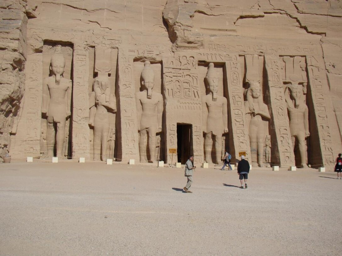 The temple of the qeen in Abu-Symbel